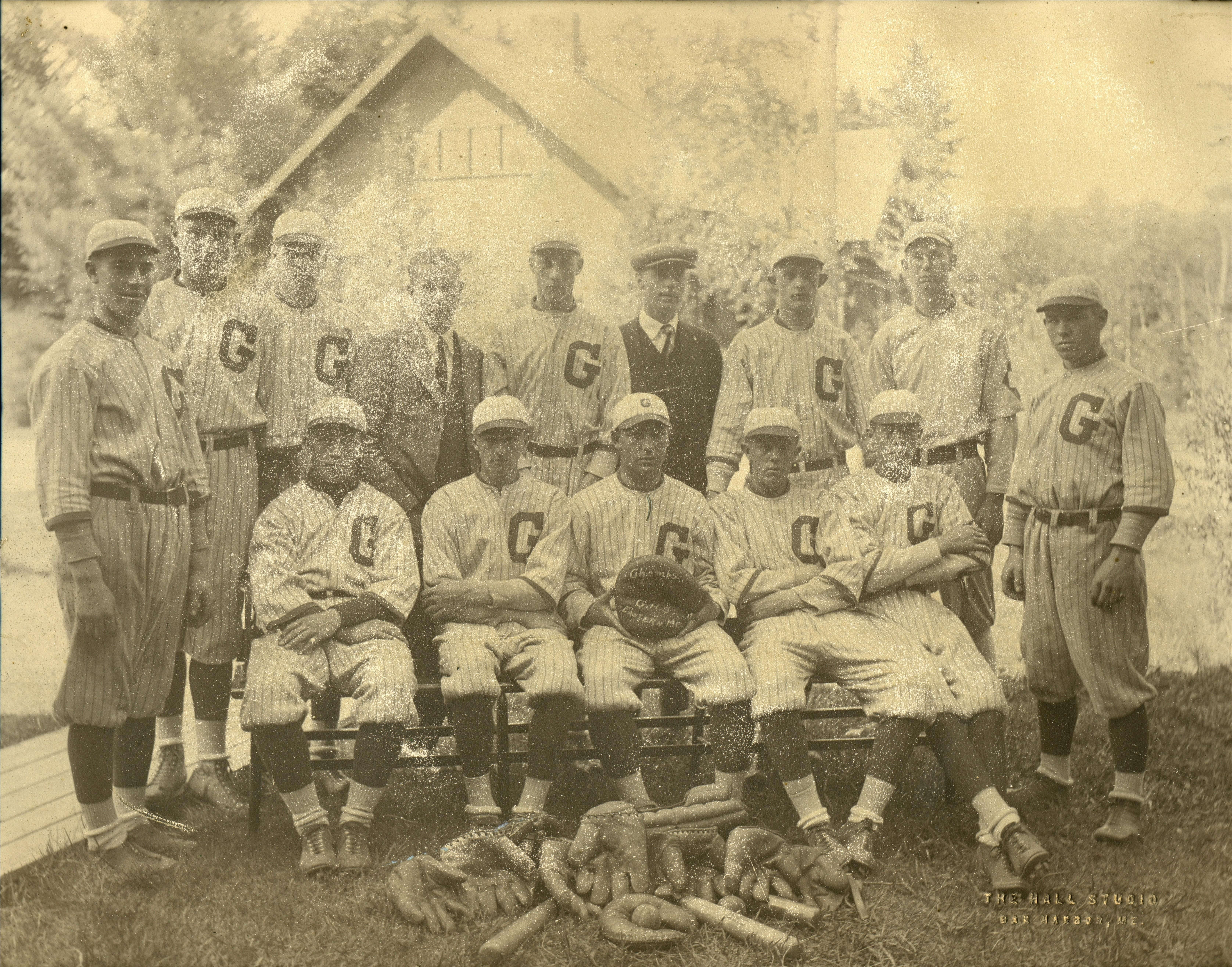 The baseball team of Gilman High School in 1922. Gilman High School of Northeast Harbor, Mount Desert Island, Maine, was named for American educator Daniel Coit Gilman. The school was later torn down, and replaced by the Mount Desert High School. Retouched by MarmadukePercy.